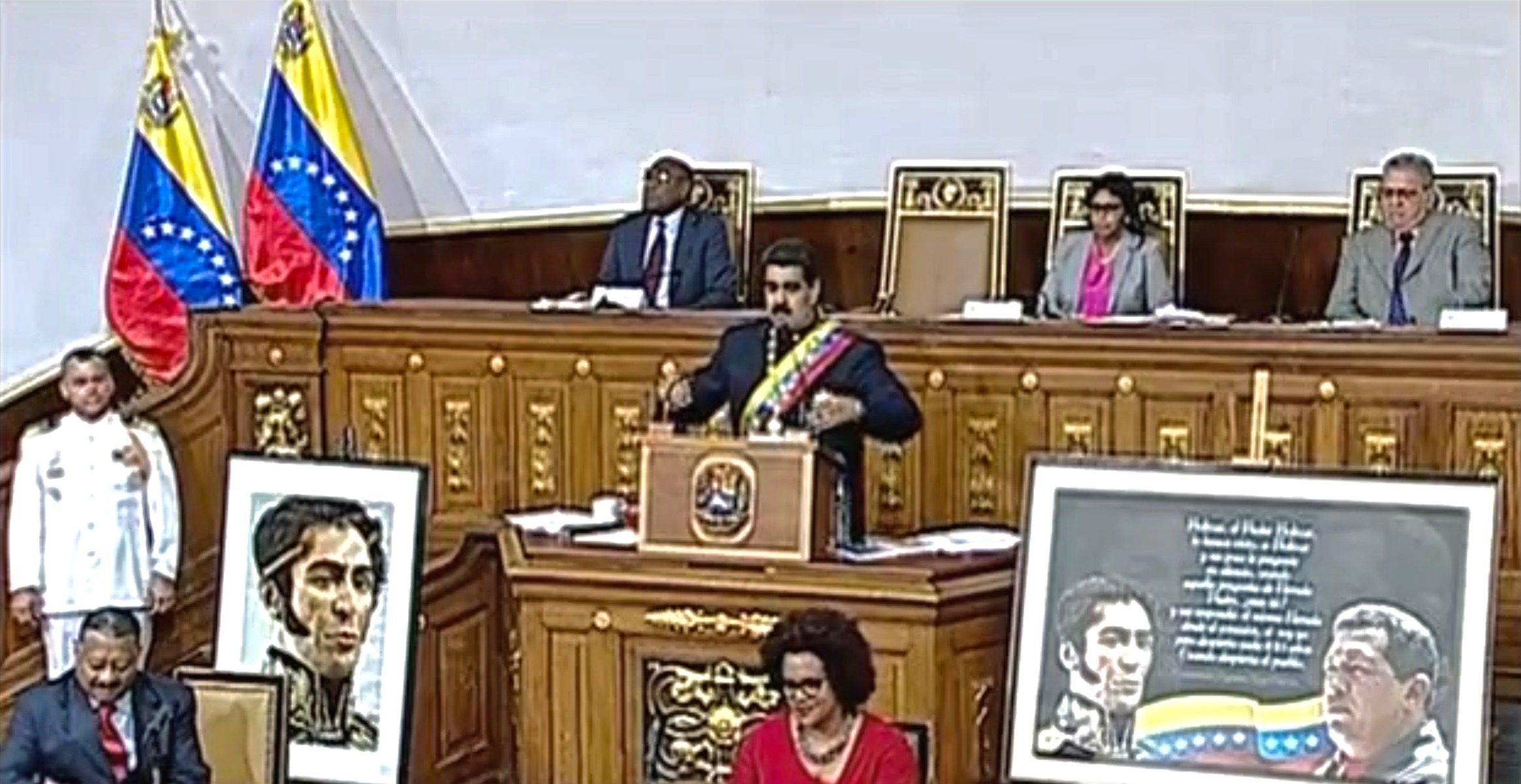 President Nicolás Maduro speaking at a Venezuelan Constituent Assembly session on 10 August 2017.